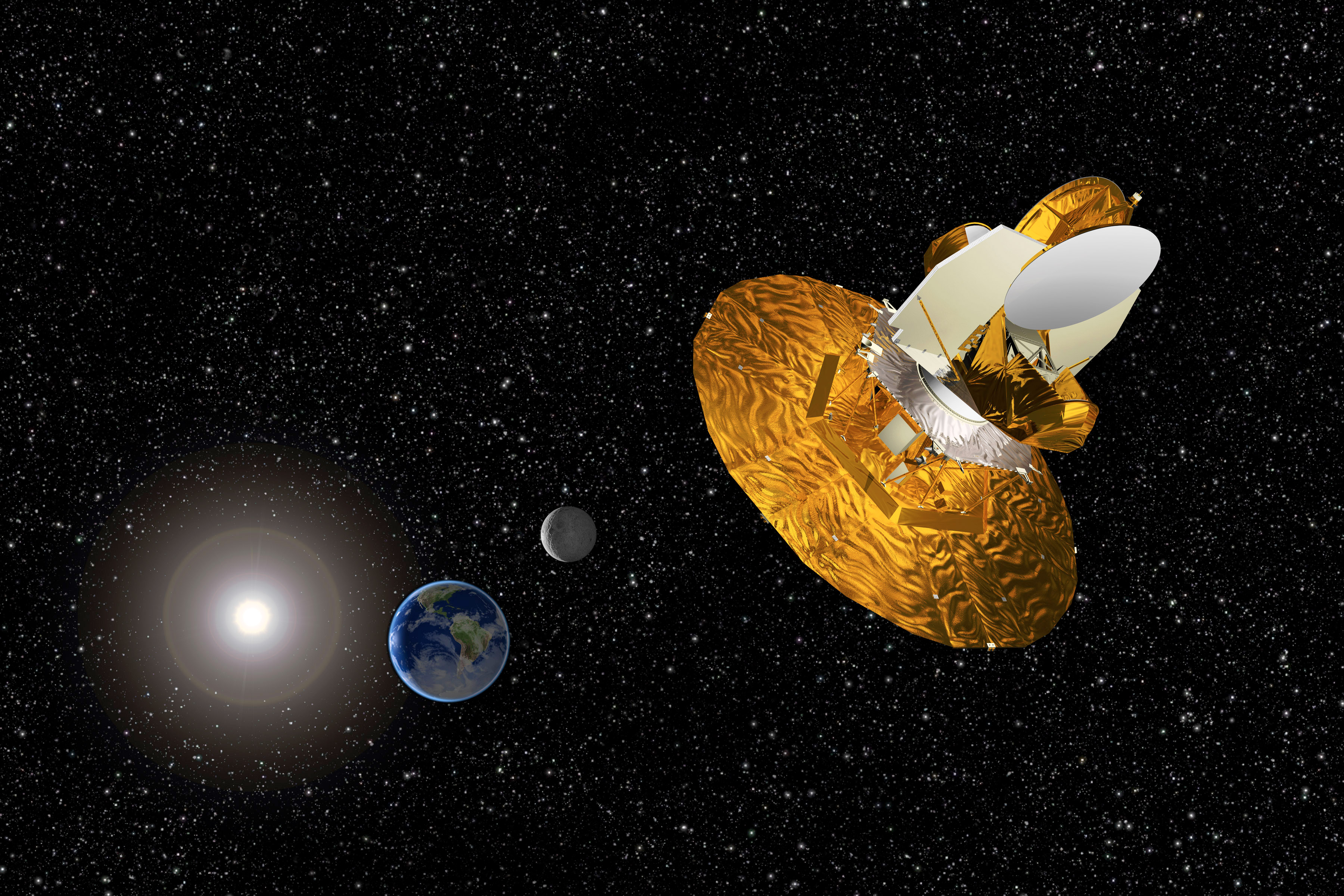 WMAP used the Moon to gain velocity for a slingshot to L2. After 3 phasing loops around the Earth, WMAP flew just behind the orbit of the Moon, three weeks after launch. Using the Moon's gravity, WMAP steals an infinitesimal amount of the Moon's energy to maneuver into the L2 Lagrange point, one million miles (1.5 million km) beyond the Earth.